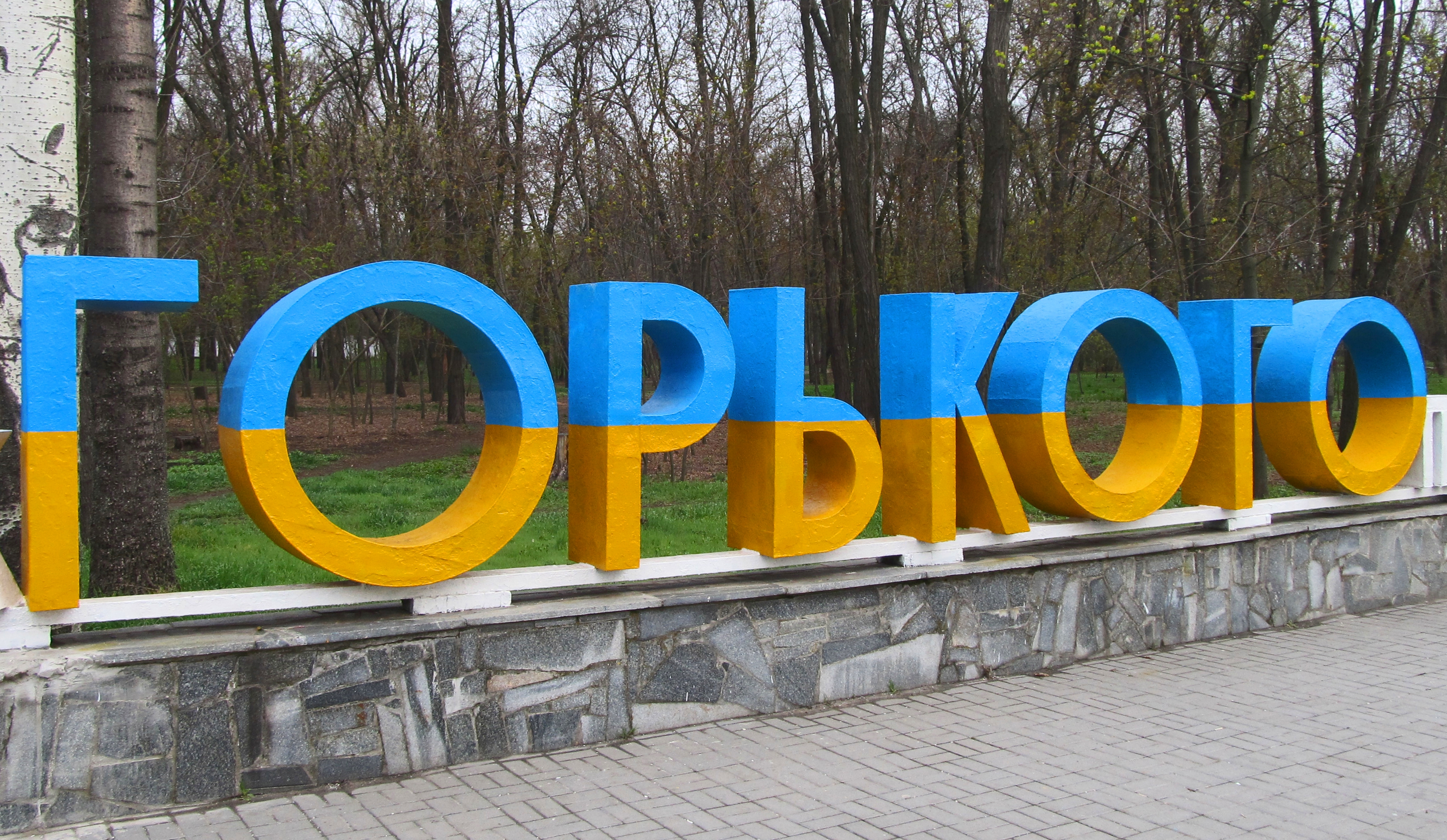 Horkoho Park (Melitopol, Zaporizhia Oblast, Ukraine).